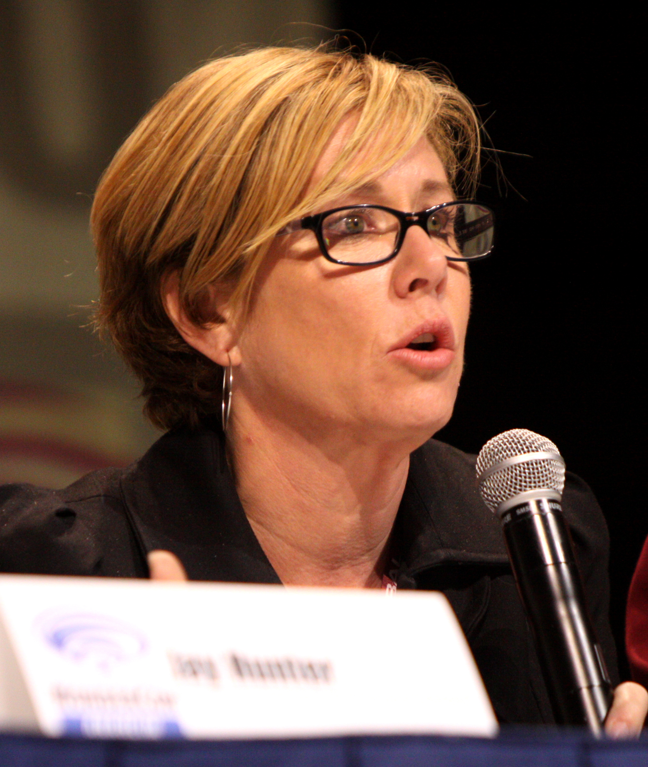 Romy Rosemont speaking at the 2013 WonderCon in Anaheim, California on March 31, 2013.